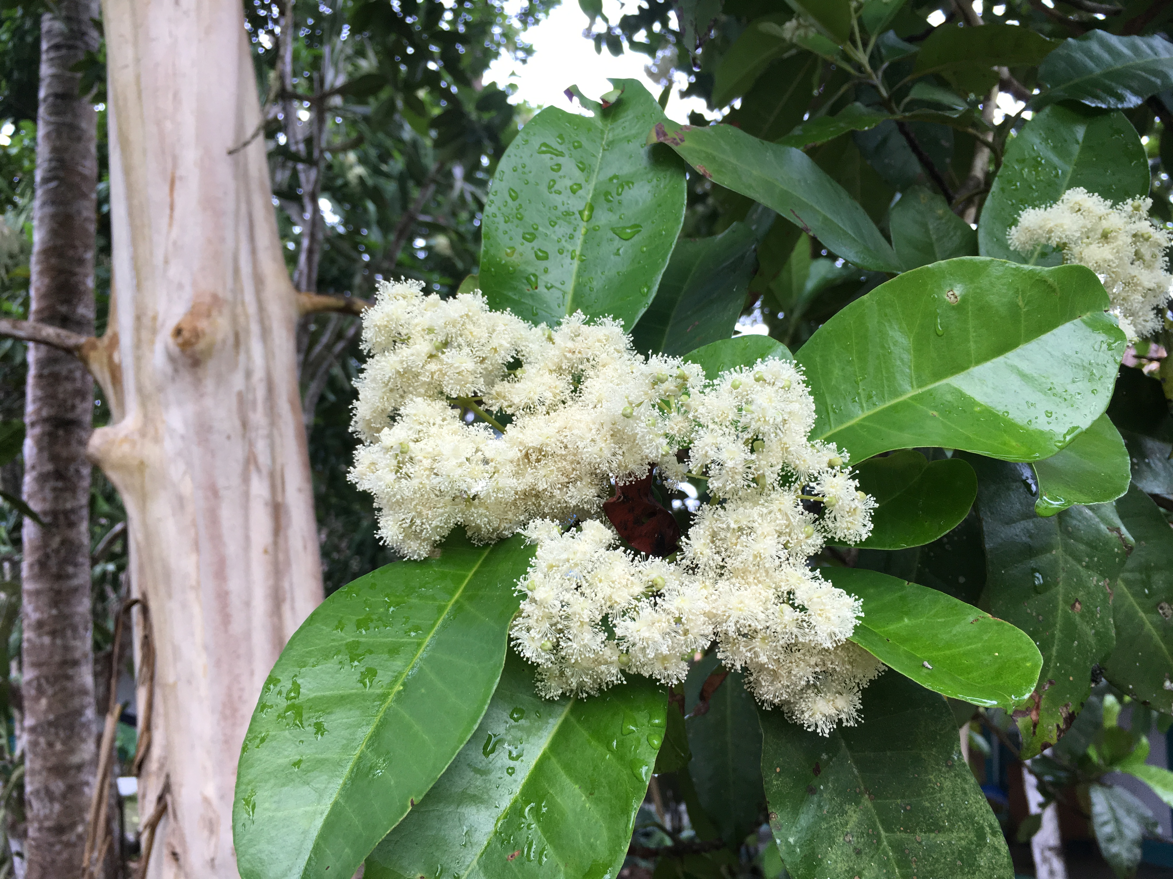 Piment flower after rainfall in Uaxactún, Guatemala